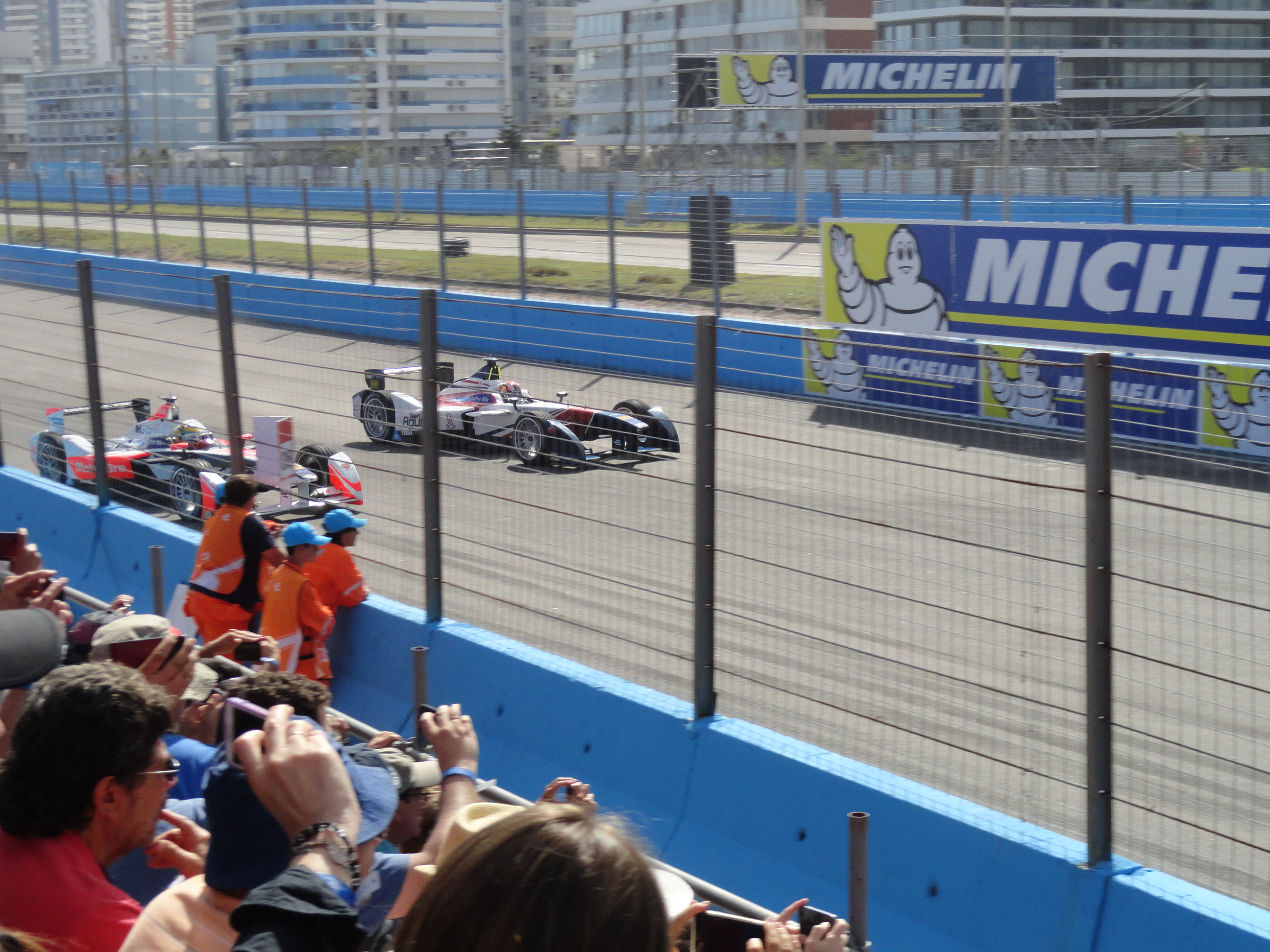 2015 Punta del Este ePrix race